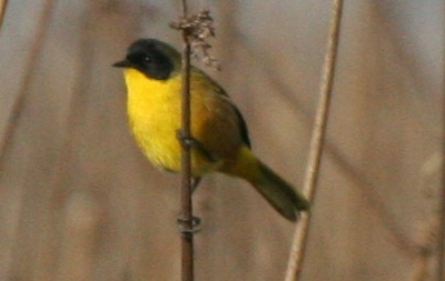 Black-polled Yellowthroat, Geothlypis speciosa, cropped version of Image:Black-polled Yellowthroat.jpg